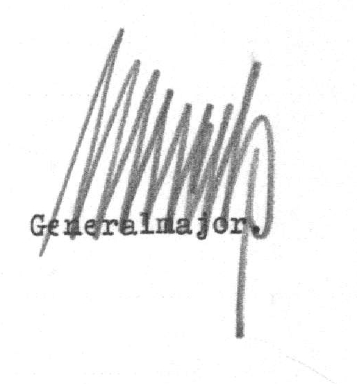 Signature of Altrock, Wilhelm Eduard Paul Hugo (14.8.1887-26.2.1952), in September 1941 Generalmajor, commander of Oberfeldkommendantur 379 (Brest, occupied USSR)